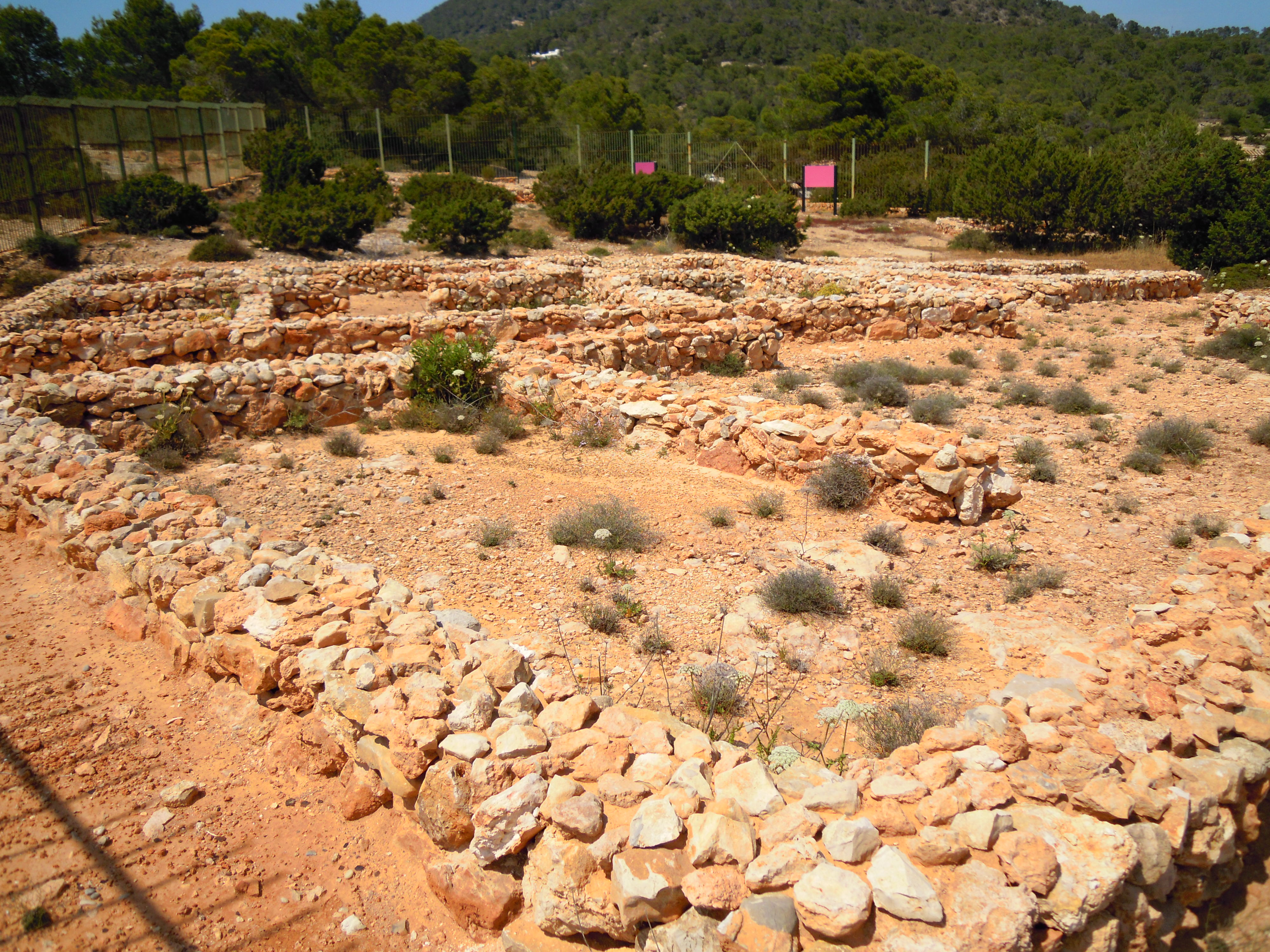 The Remains of the Phoenician Settlement on the rocky headland of Sa Caleta dating from 654 BC, The island of Ibiza